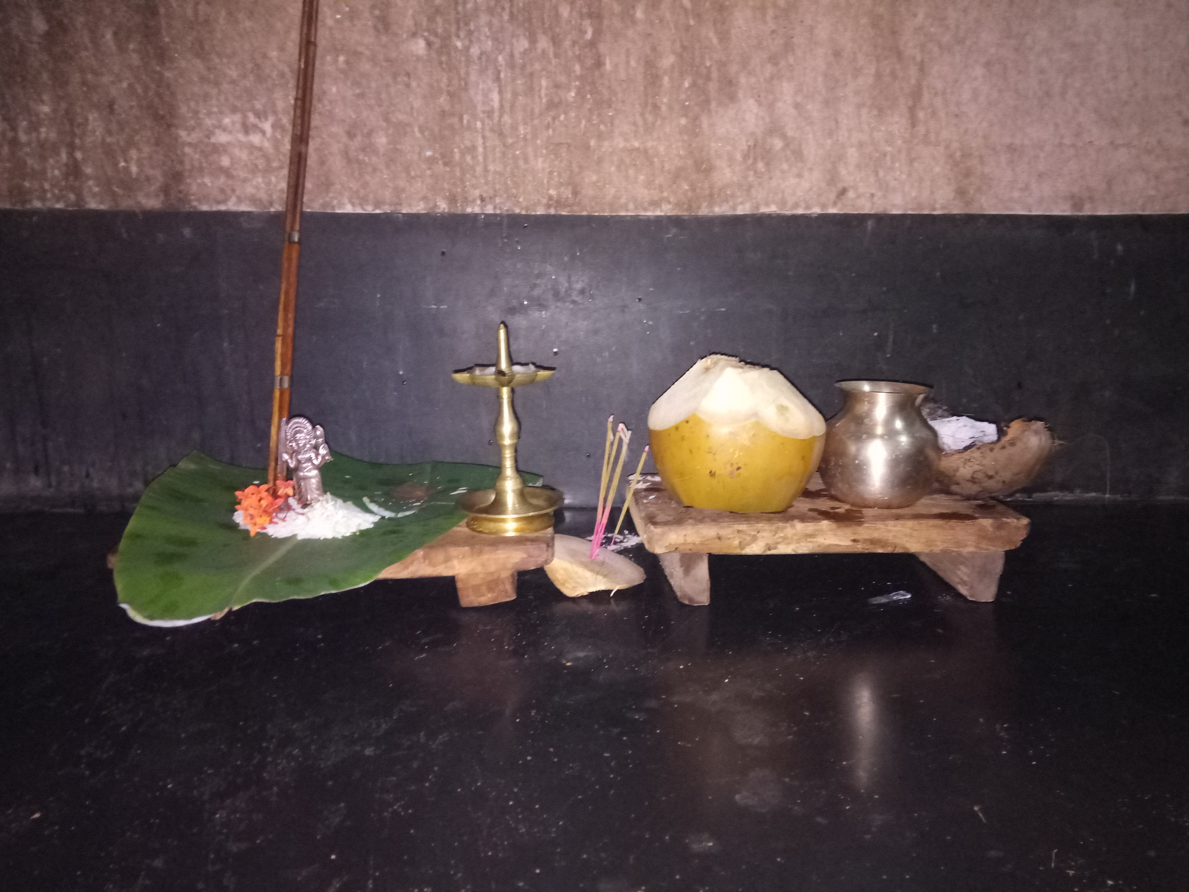 Worships Kallurti Daiva in Homes